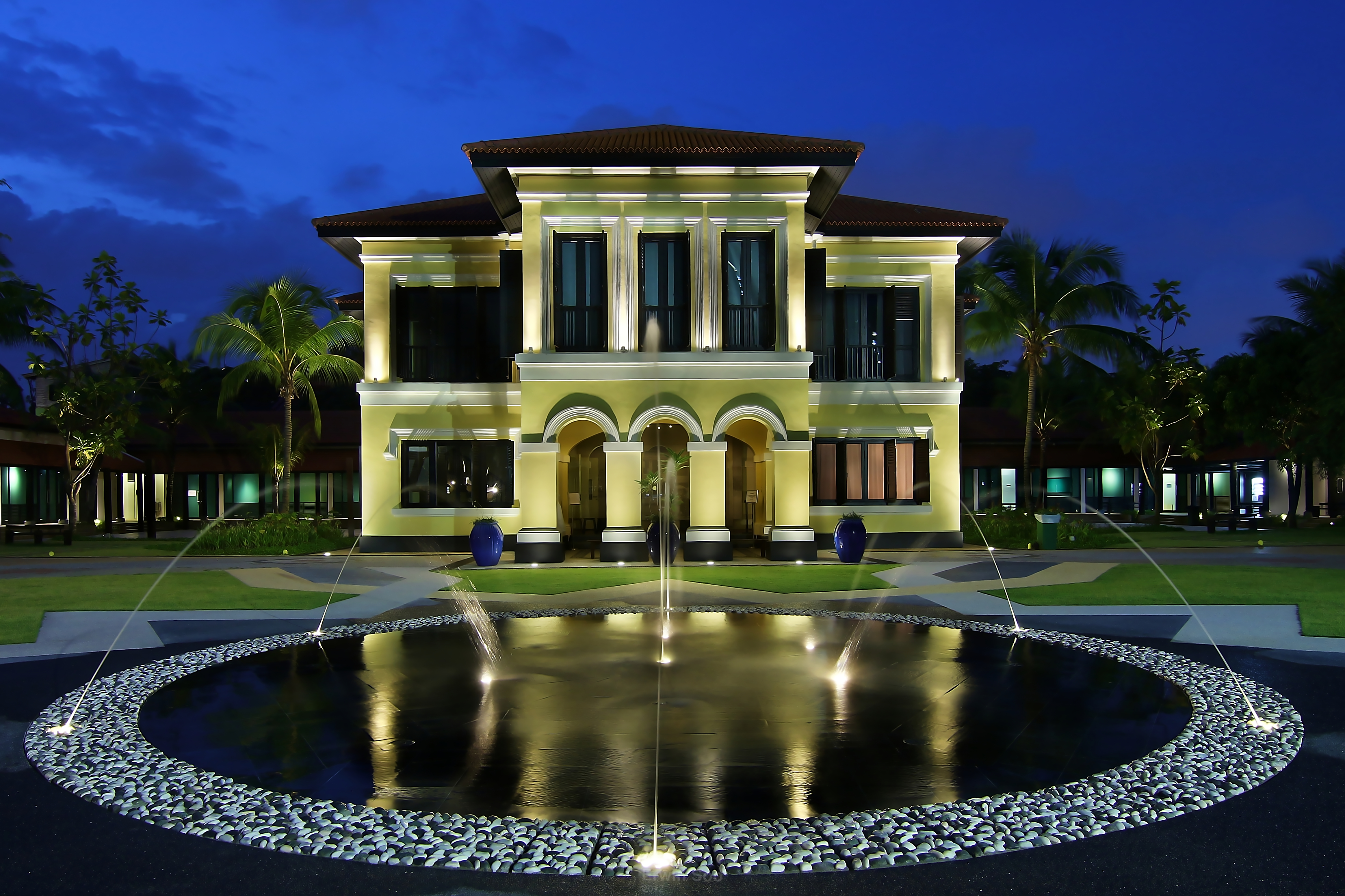 The Malay Heritage Centre in Istana Kampong Glam, Singapore, at dusk.